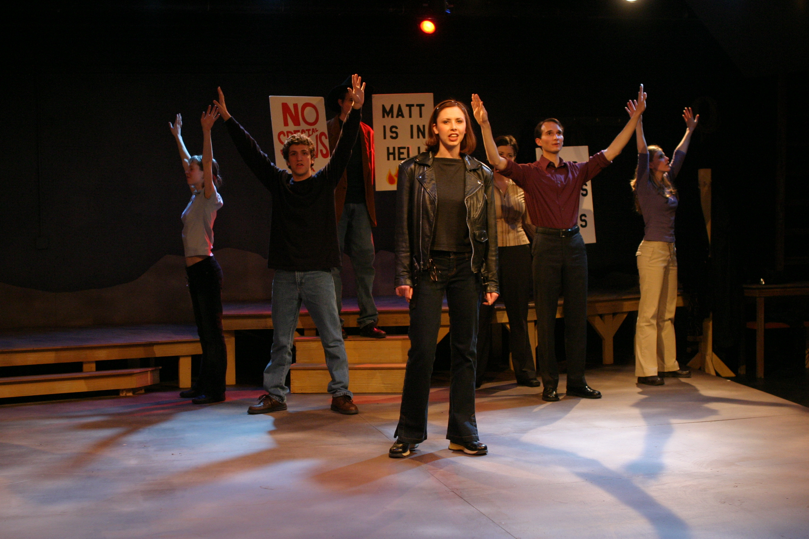 Pictures from The Laramie Project at Otterbein College, 04/29/2003. Photo by and Copyright by Karl Kuntz (614-895-5331)..**Not for Publication Reproduction (Commercial Magazines or Newspapers) without Permission. Students may use for their portfolios.